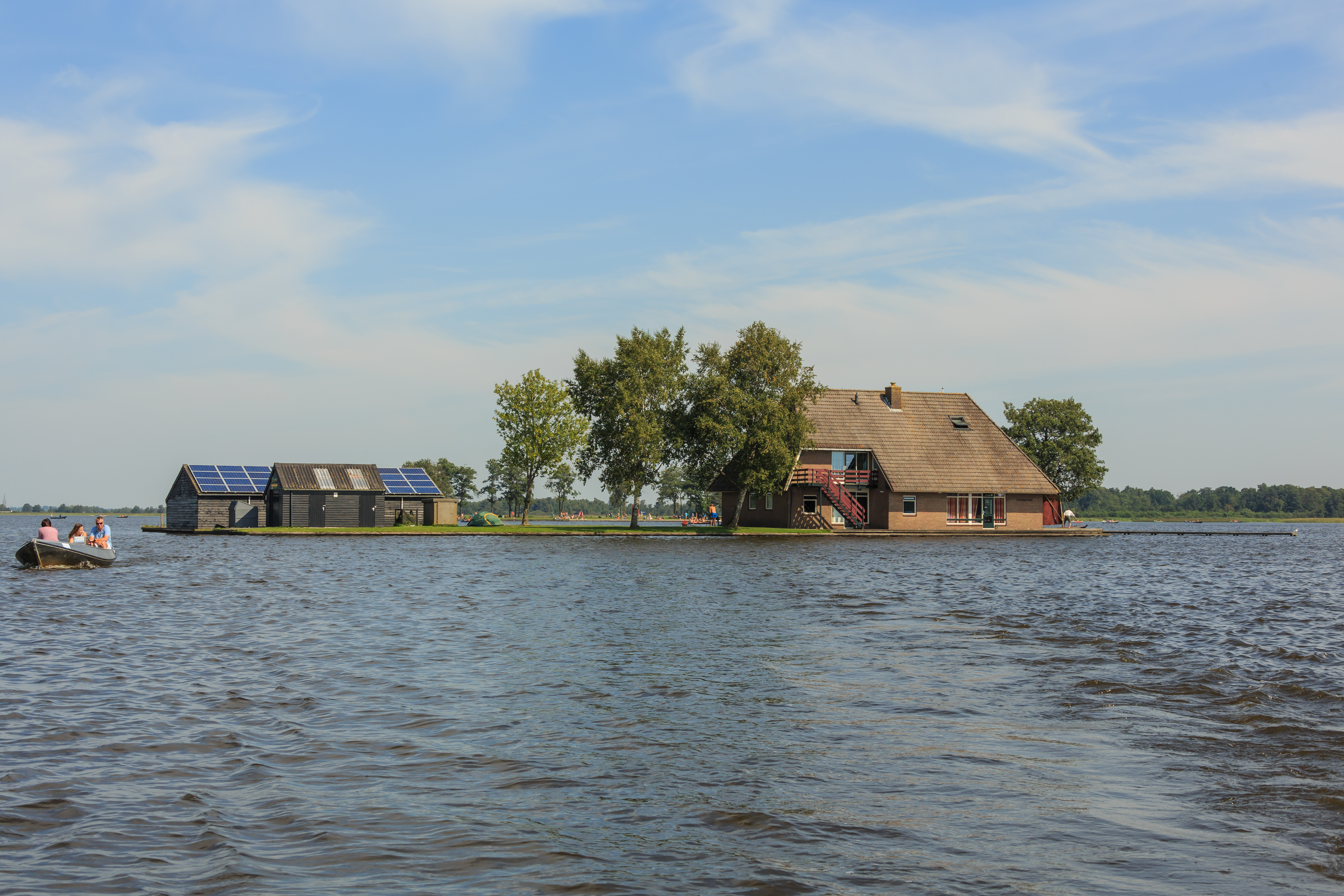 Giethoorn, The Netherlands: Het Kraggehuis in the Bovewijde lake at Giethoorn